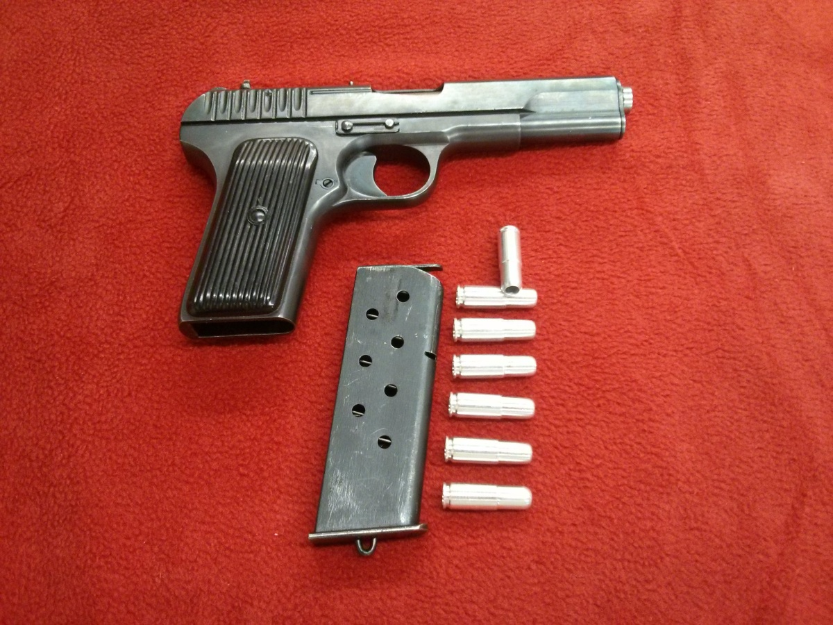 A Tokarev Sportowy with magazine and a set of aluminum 7.62x25 Tokarev shaped insert cartridges.